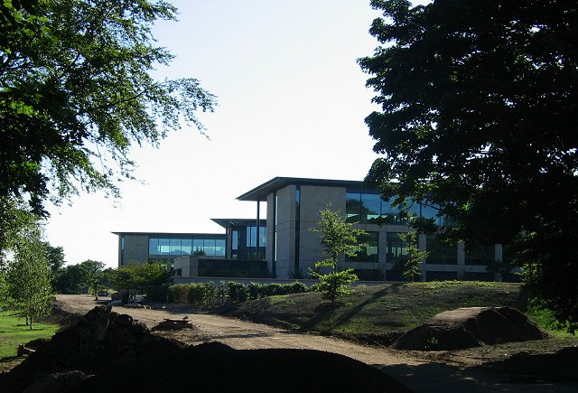 Royal Bank of Scotland. On the site of the old Gogar Burn hospital, the new head office is nearing completion.